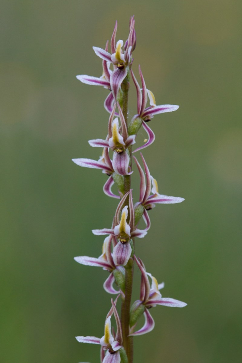 Prasophyllum petilum growing in the Australian Capital Territory